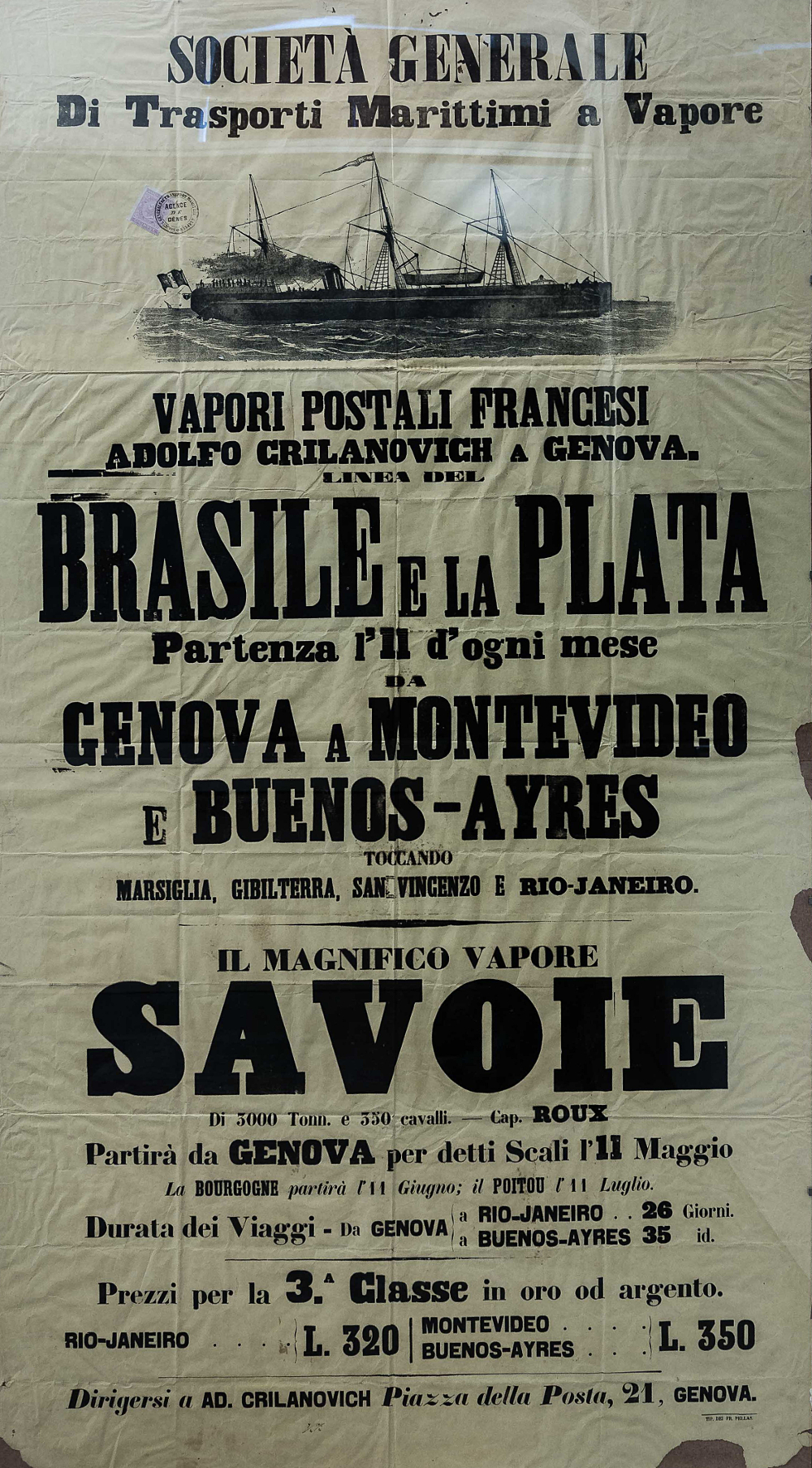 poster with reference to the italian emigration